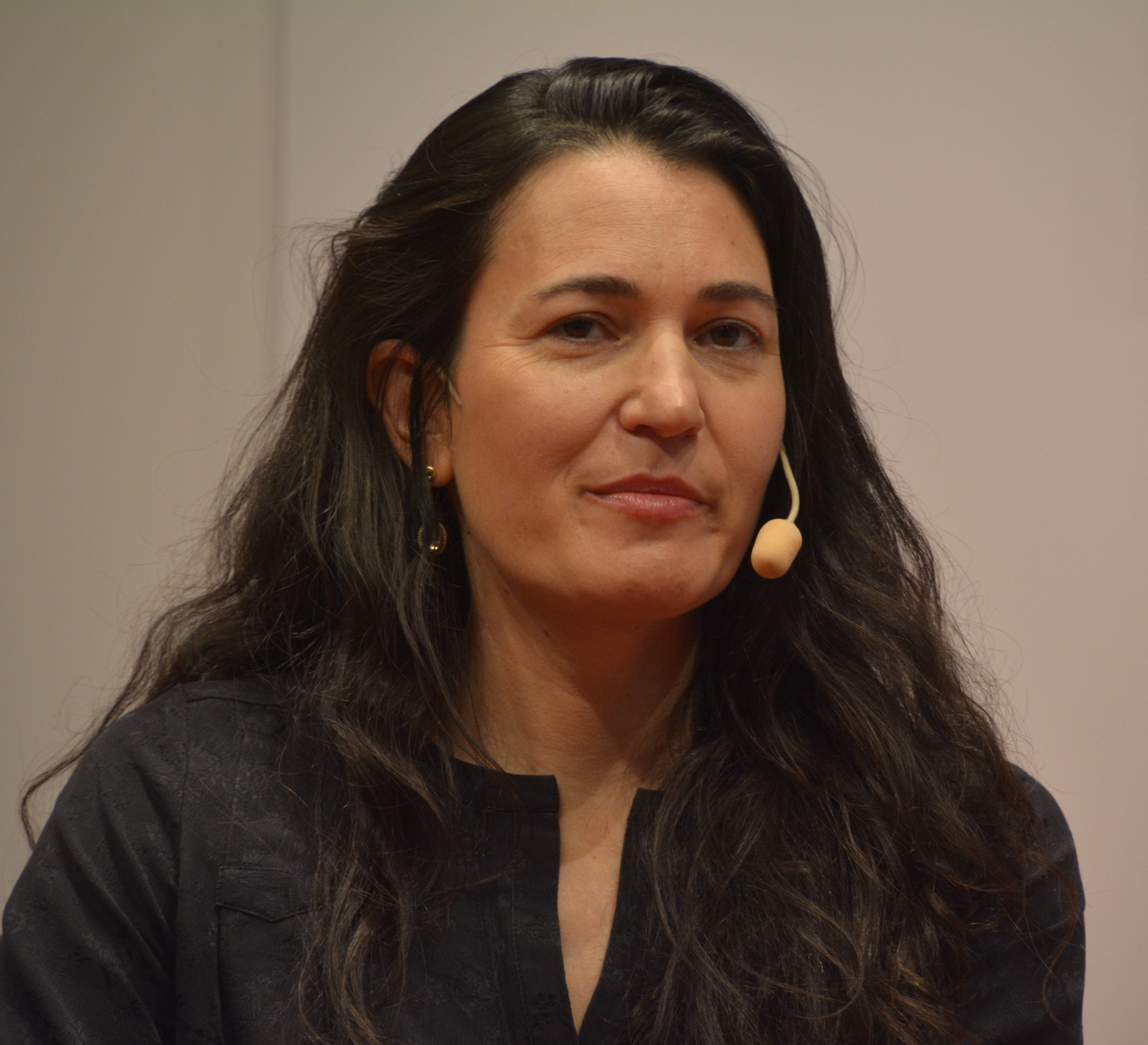 Nicole Krauss at Göteborg Book Fair 2019